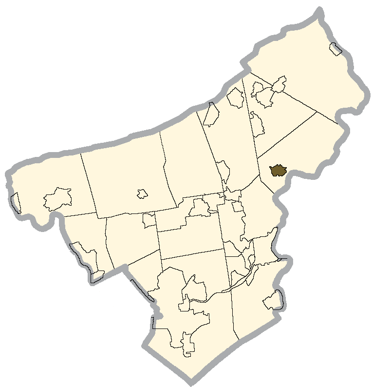 Martins Creek shaded on the Northampton county map.